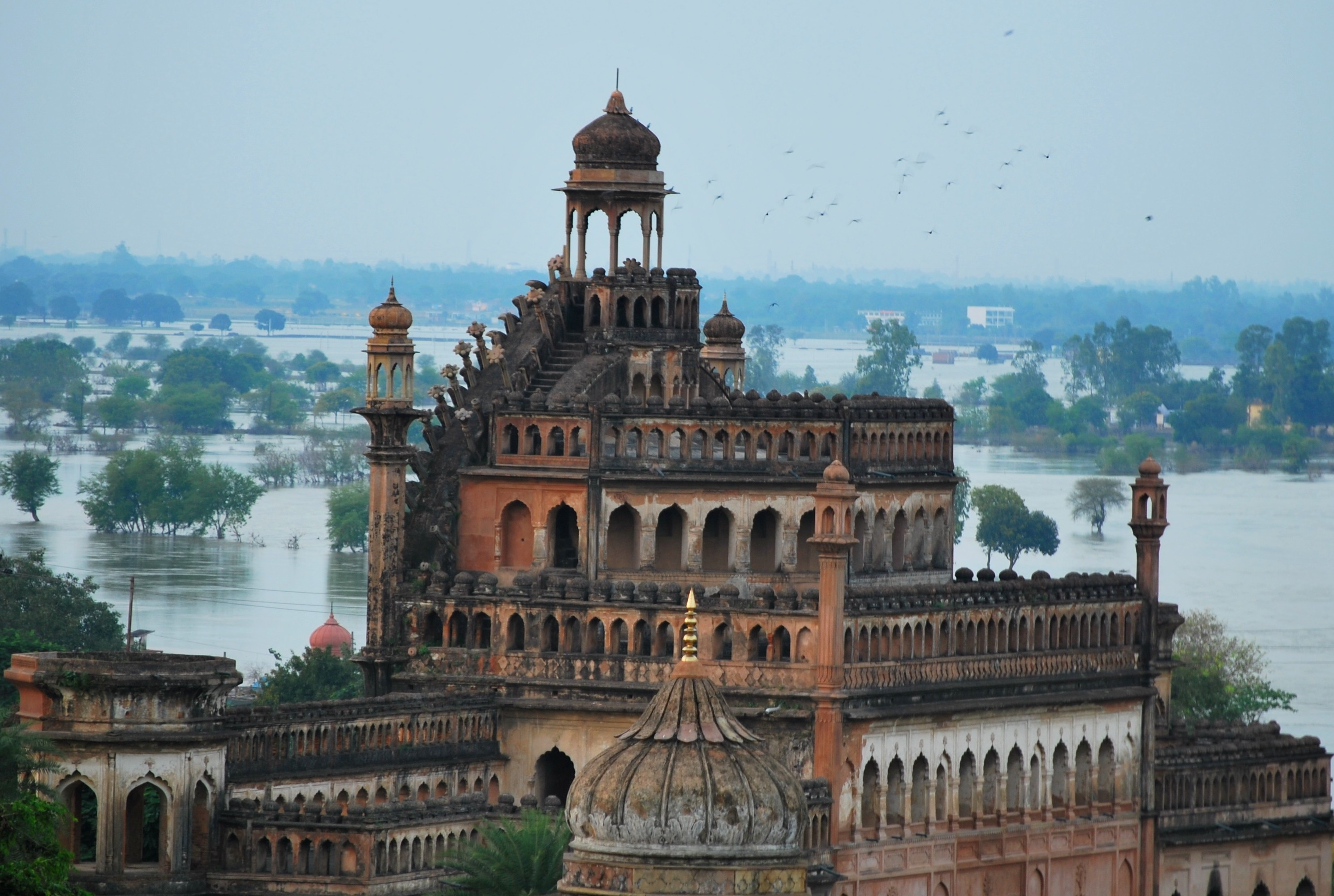 Rumi Darwaza as seen from Bara Imambara.